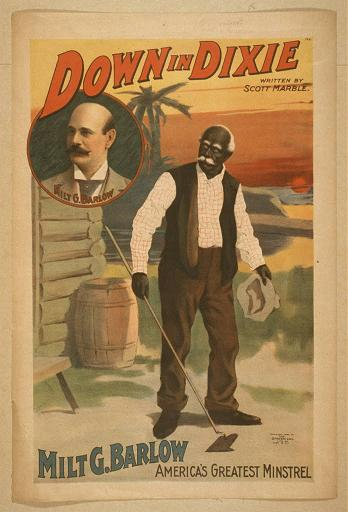 Milt G. Barlow, 19th century minstrel